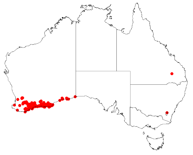 Hakea nitida Occurrence data downloaded from AVH on 22 November 2018 using